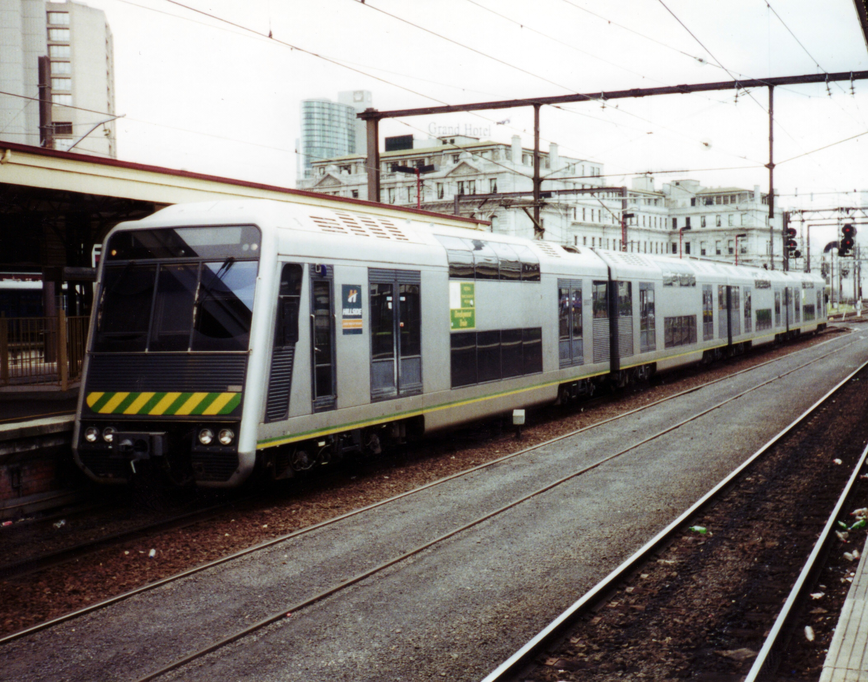 The now scrapped 4D prototype EMU at Spencer St.